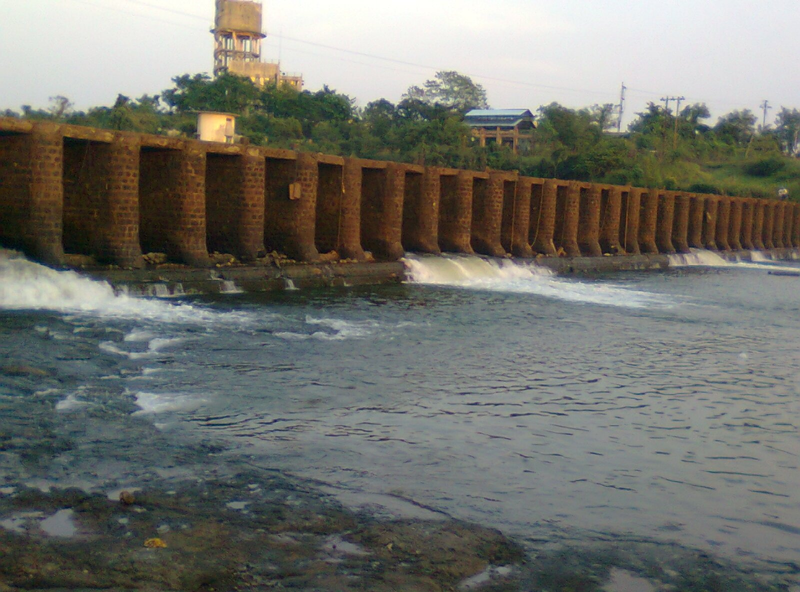 titwala dam situated 60 km far from main city Mumbai.